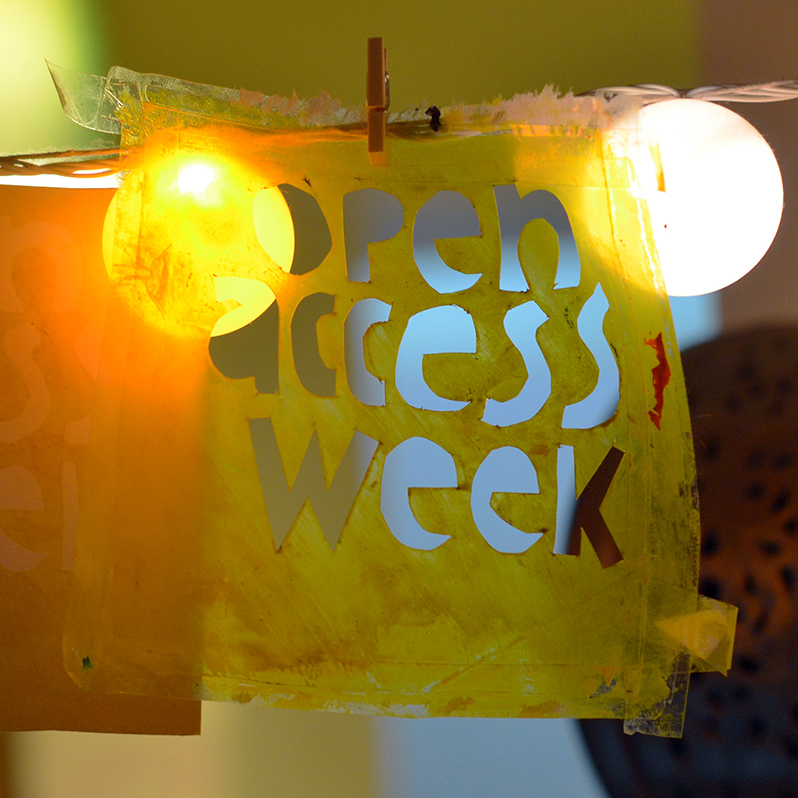 Open Access Week stencil and a card made from stencil. This linocut/stencil and/or the print(s) was/were created by Subhashish Panigrahi. You are free to use it for any purpose as long as you credit me properly. Contact me: If you're unsure about how you can use this picture. Reuse: If you use this image outside of Wikimedia projects, I would be happy to hear from you. If you use this image in a printed publication, I would love to get a copy for my archives.